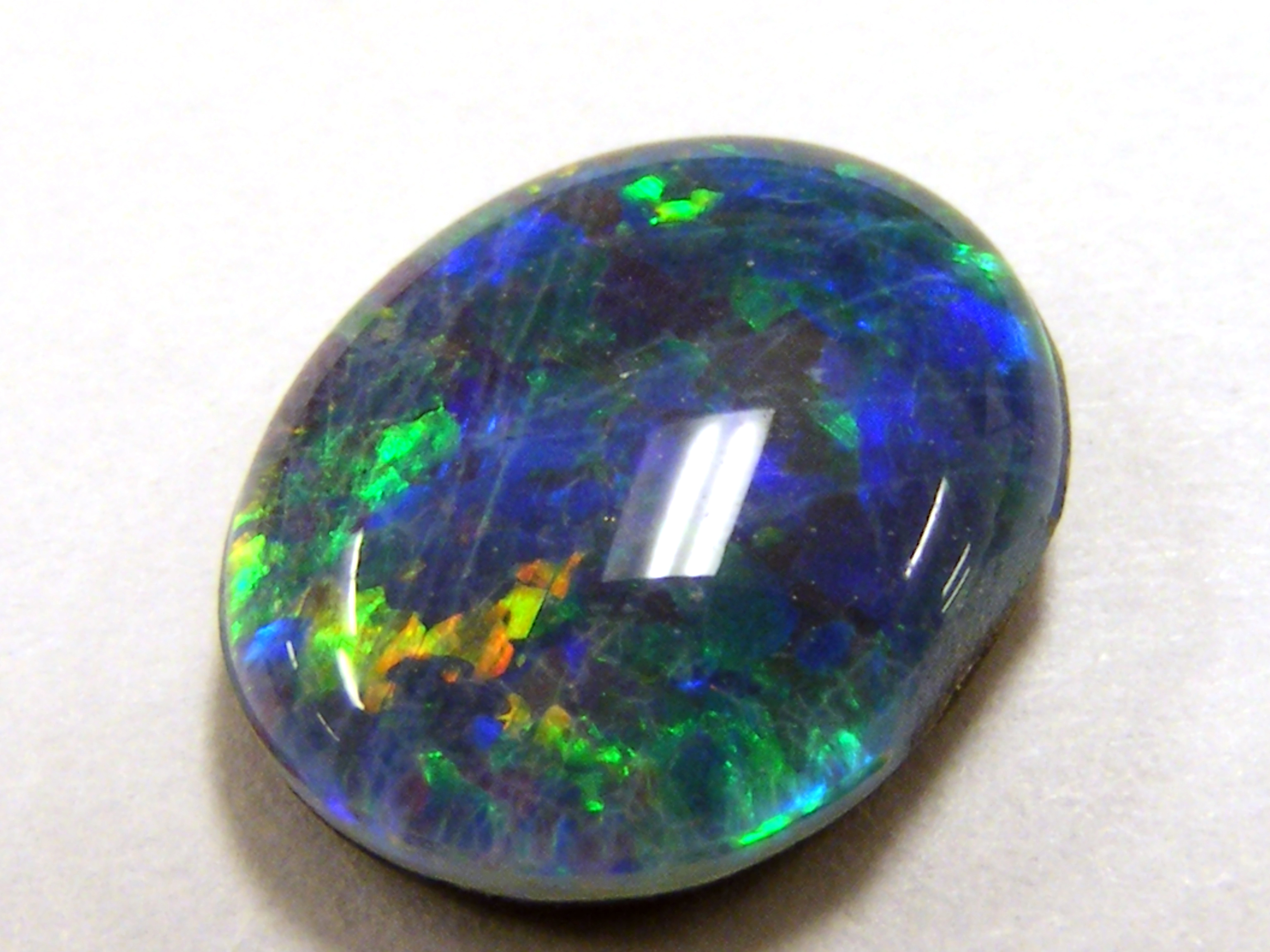 An opal doublet from Andamooka South Australia